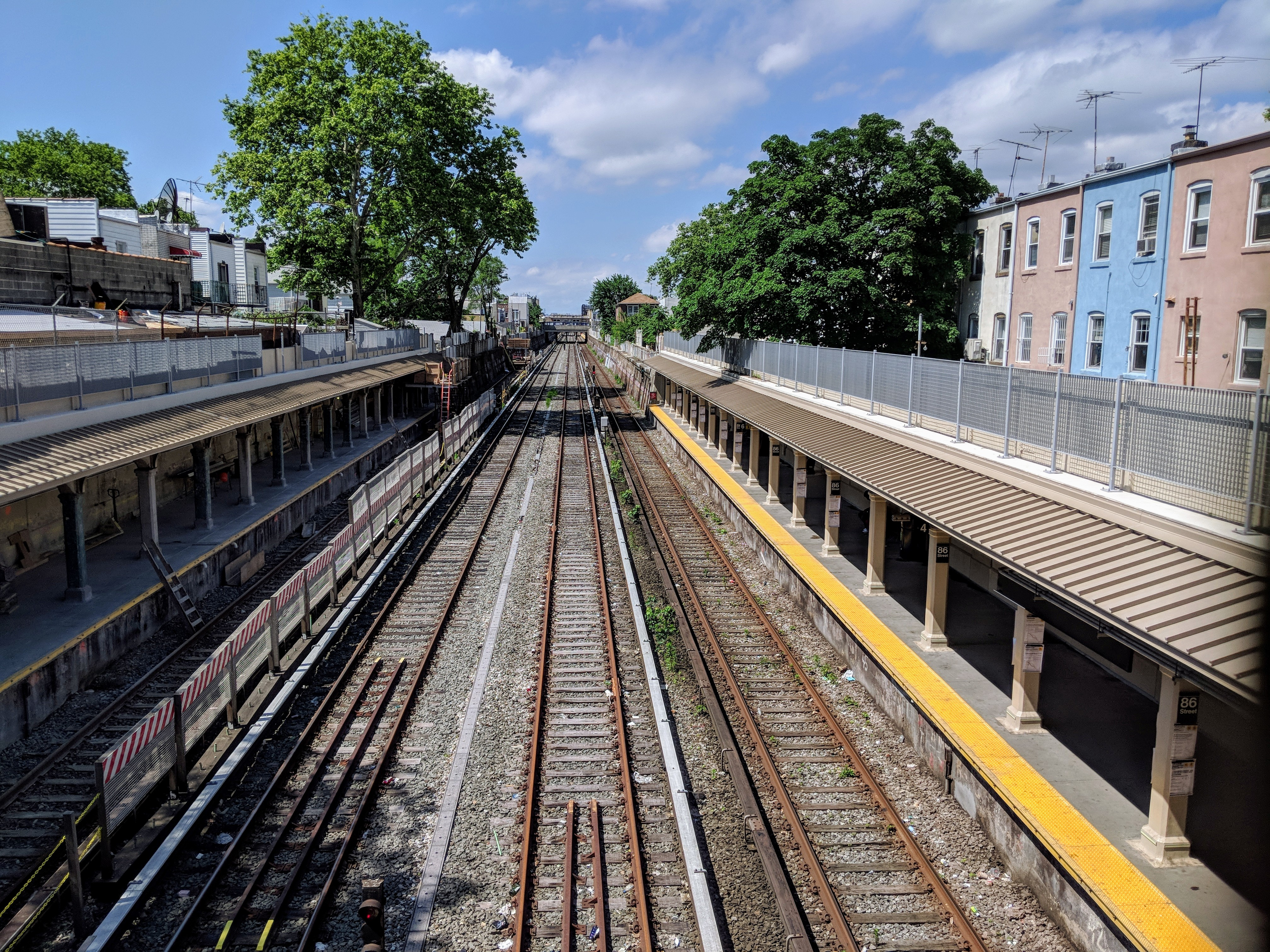 Northward view from the station house, looking down onto 86th Street (BMT Sea Beach Line) platforms in June 2018. Coney Island-bound platforms are closed due to renovations.